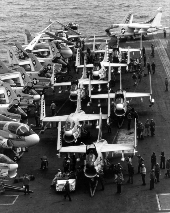 View of the forward flight deck of the U.S. Navy aircraft carrier USS Enterprise (CVAN-65) during the evacuation of South Vietnam, 29 April 1975. Visible are various aircraft of Attack Carrier Air Wing 14 (CVW-14): LTV A-7E Corsair II of attack squadrons VA-27 Royal Maces (NK-4XX), and VA-97 Warhawks (NK-3XX); Grumman A-6A Intruder of VA-196 Main Battery (NK-5XX) and a single Grumman EA-6B of electronic countermeasures squadron VAQ-137 Rooks.